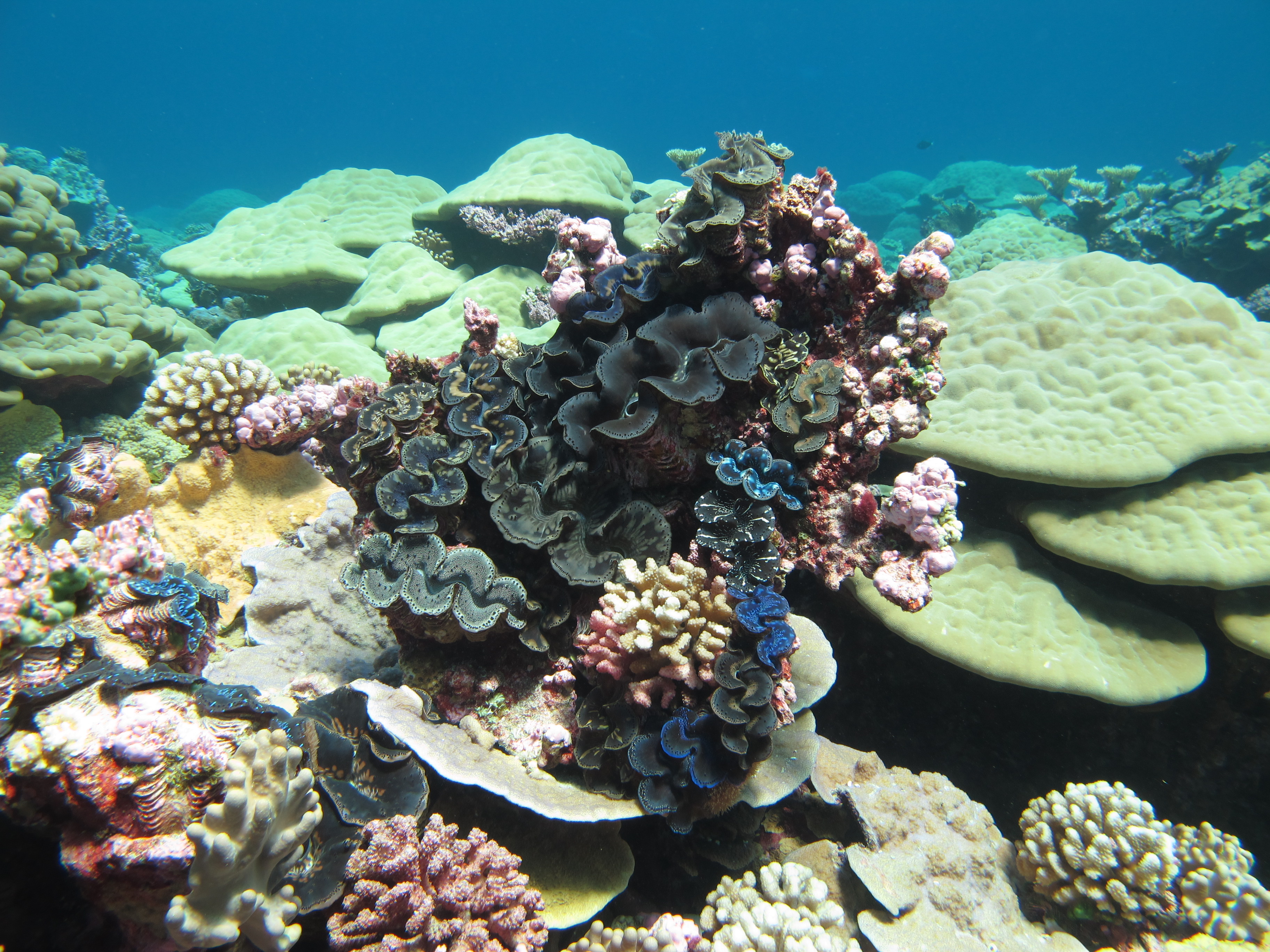 Giant clams, absent or rare throughout most of the Pacific, are abundant and dominate the reef landscape at Kingman Reef National Wildlife Refuge. Photo credit- Amanda Pollock-USFWS